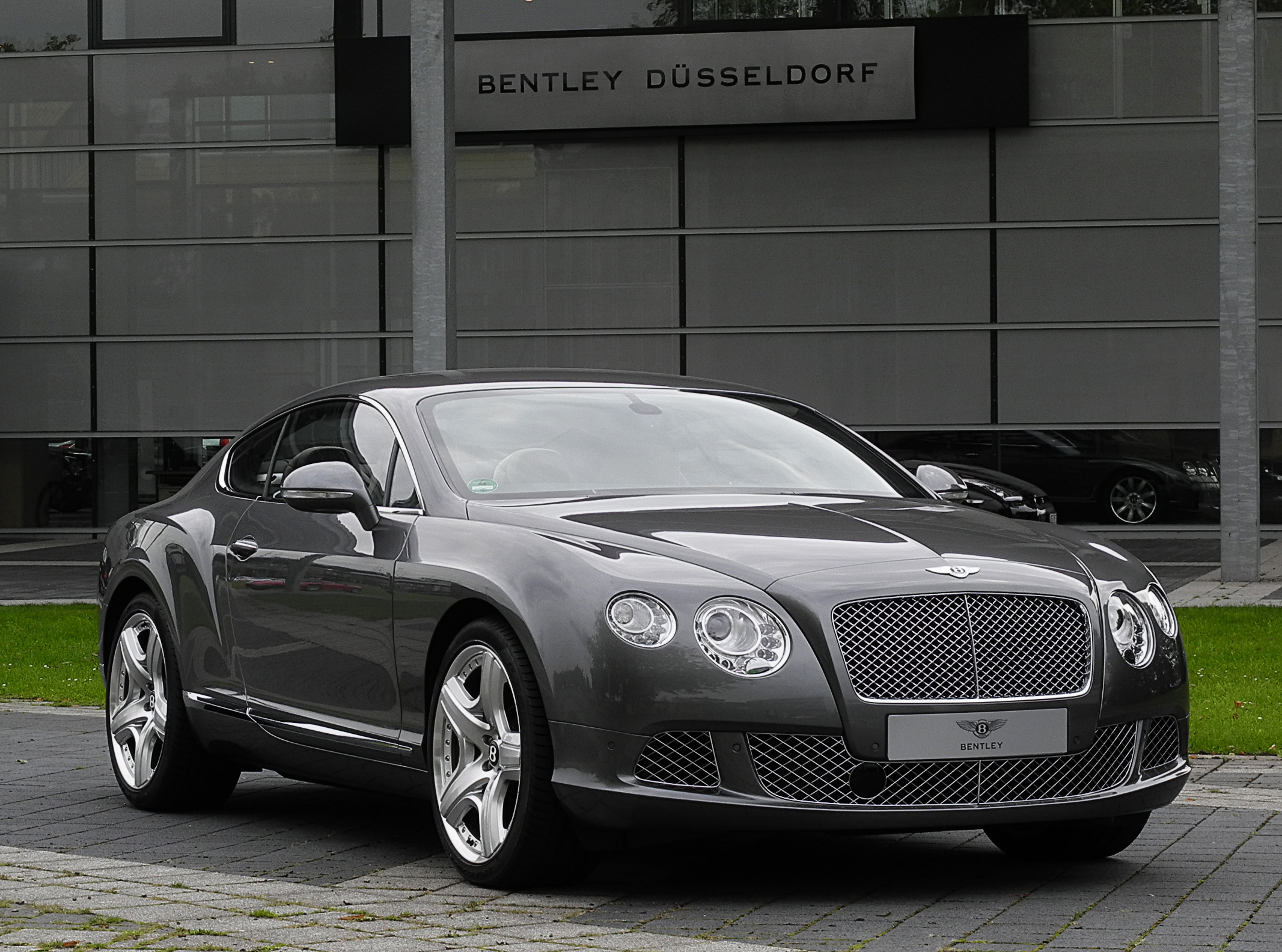 Bentley Continental GT (II)